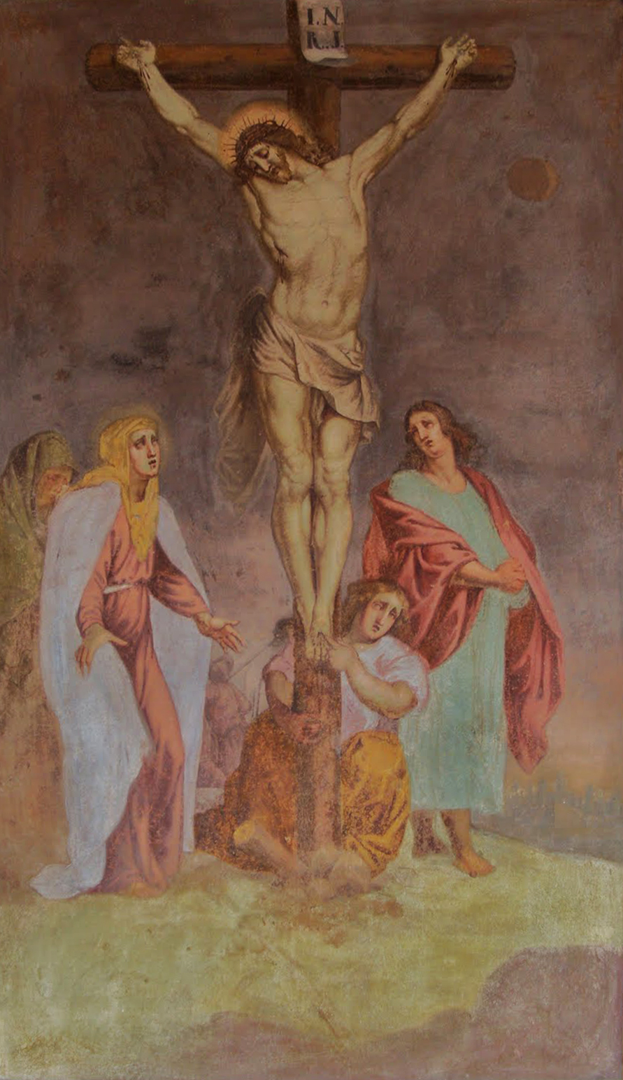 BAVENO CHIESA DEI SS GERVASIO E PROTASIO